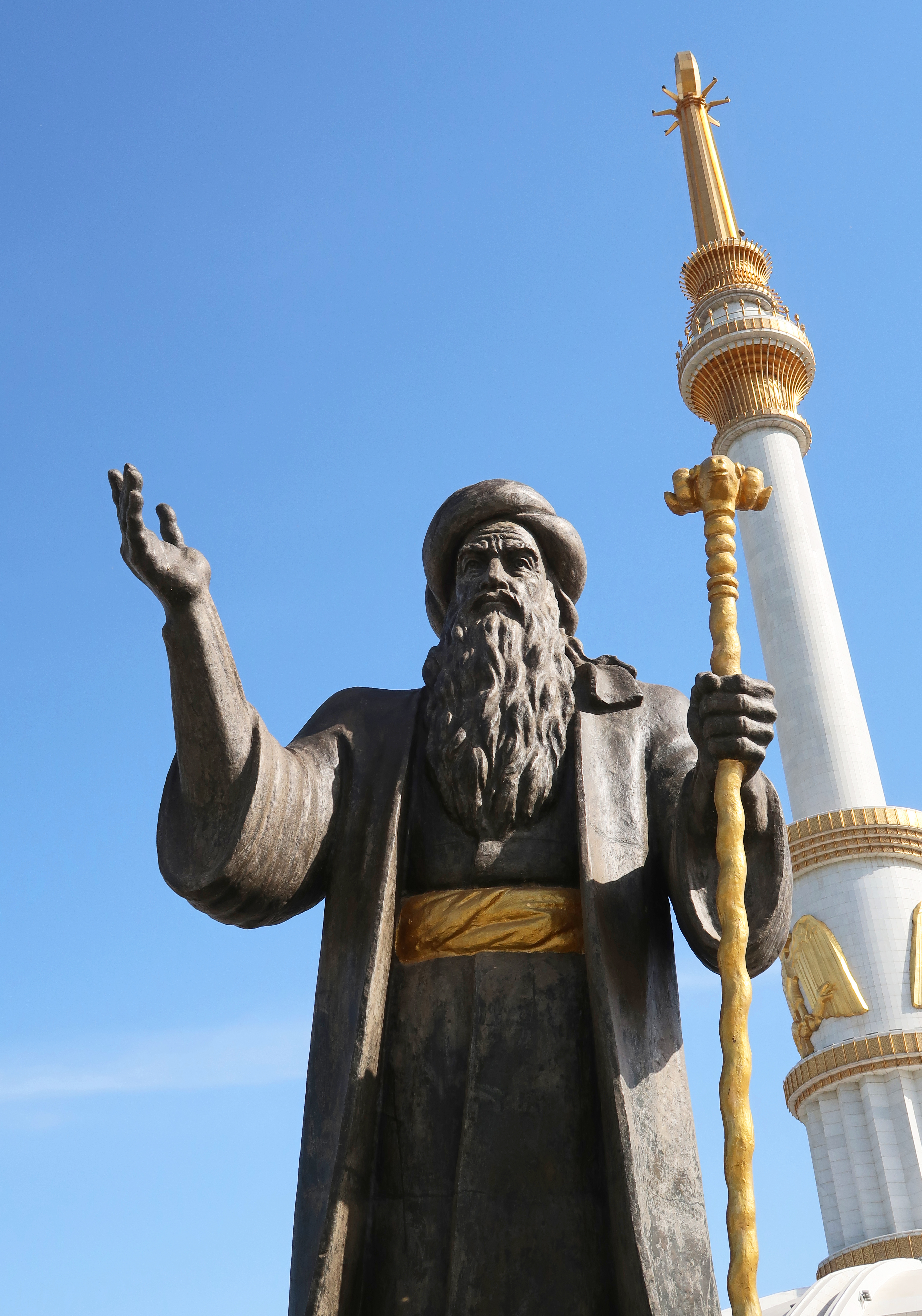 Gorkut Ata Statue at Independence Monument